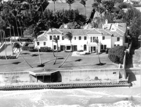 Persistent URL: Local call number: C037896 Title: Aerial view of the Kennedy family home in Palm Beach, Florida Date: ca. 1965 Physical descrip: 1 photoprint - b&w - 4 x 5 in. Series Title: Repository: 500 S. Bronough St., Tallahassee, FL, 32399-0250 USA, Contact: 850.245.6700